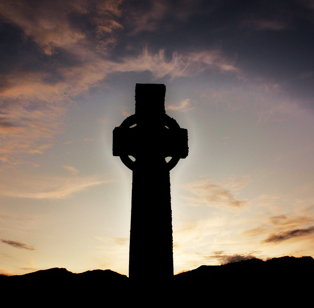 St. Martin's Cross, Ion